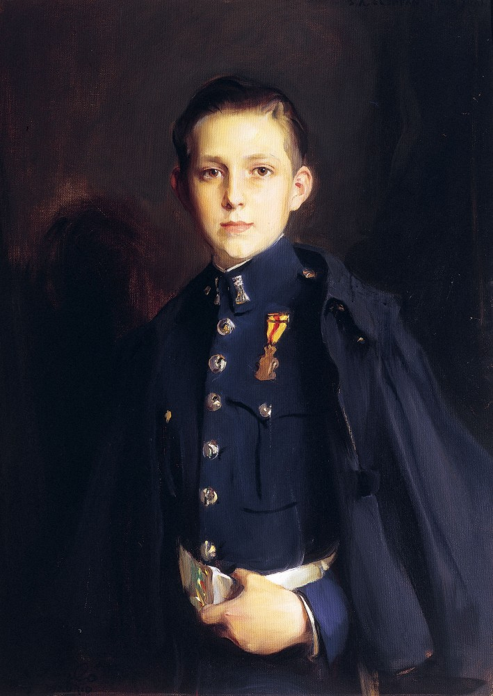 Portrait of Infante Juan, Count of Barcelona and father of King Juan Carlos I of Spain by Philip de Laszlo, 1927.